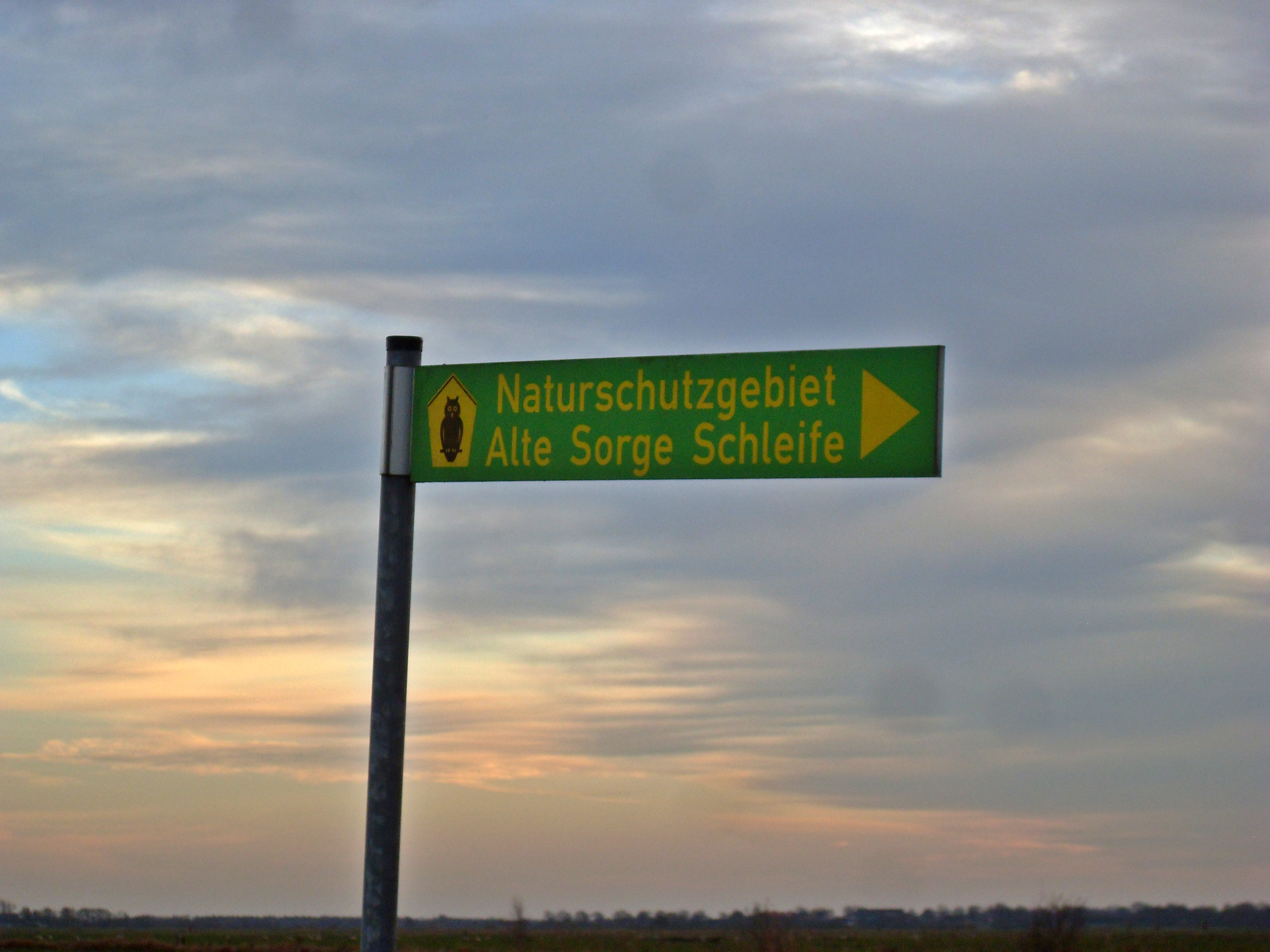 Sign in the "Alte Sorge-Schleife" nature reserve in Schleswig-Holstein